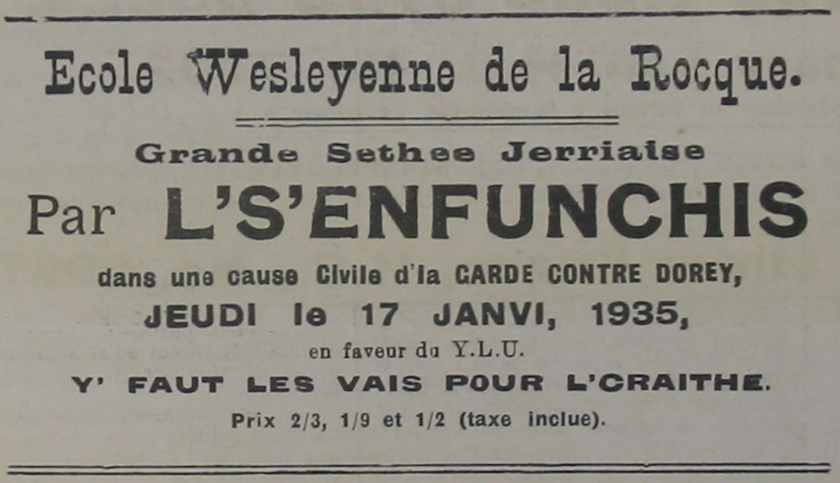 Advertisement for theatrical play performance 17 January 1935 by Jèrriais acting troupe L's Enfuntchis. Advertisement from newspaper Les Chroniques de Jersey January 1935